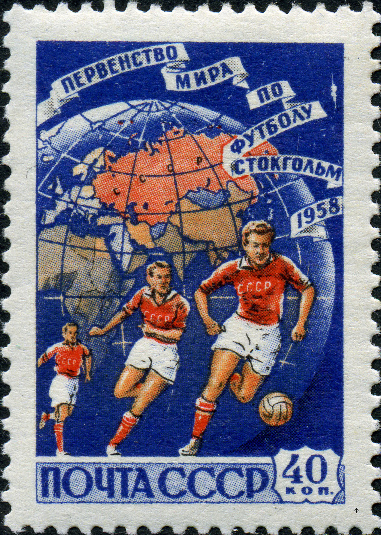 A 1958 USSR stamp, Michel no. 2089A, commemorating the FIFA World Cup.